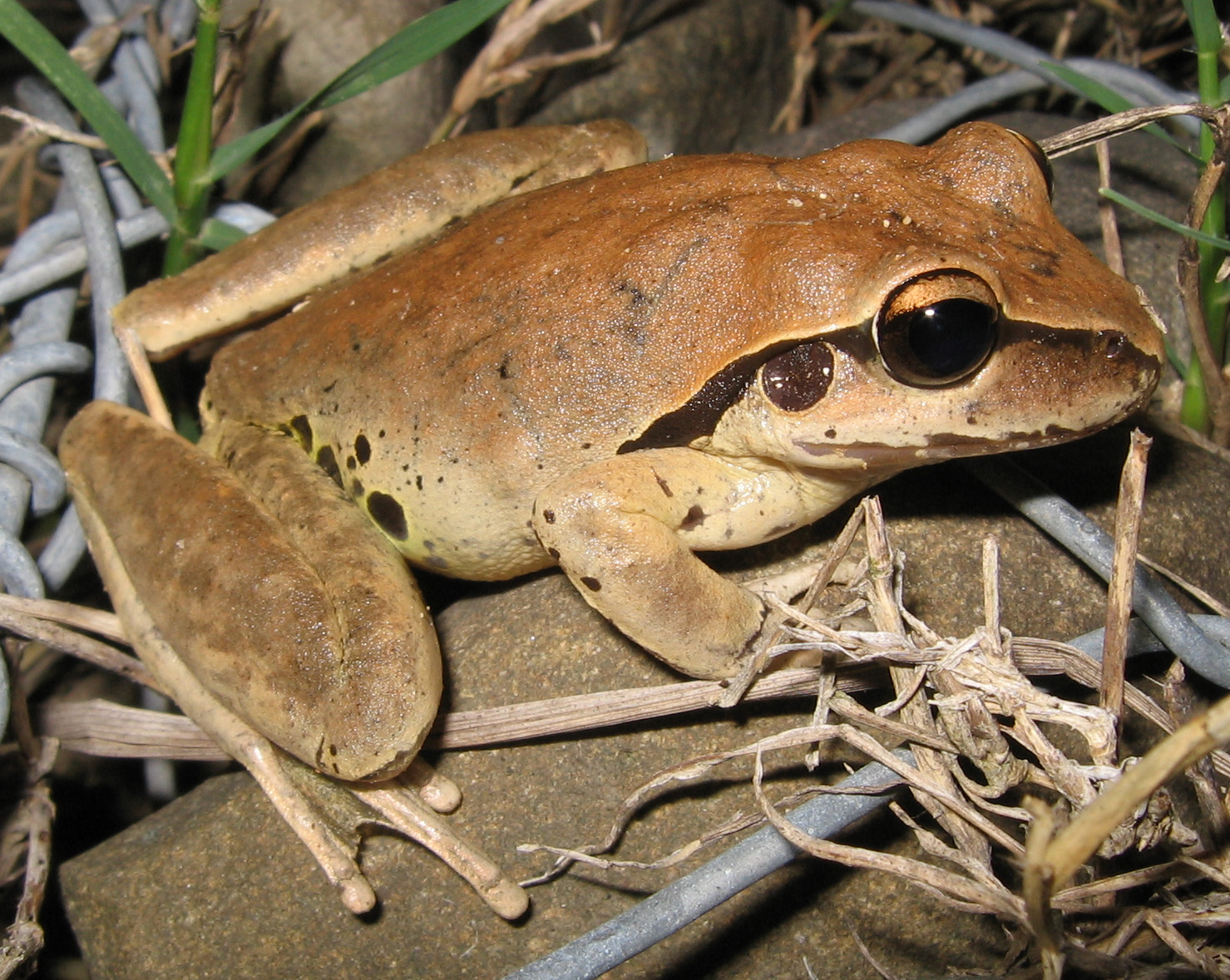 A female Stoney Creek Frog (Litoria wilcoxi).